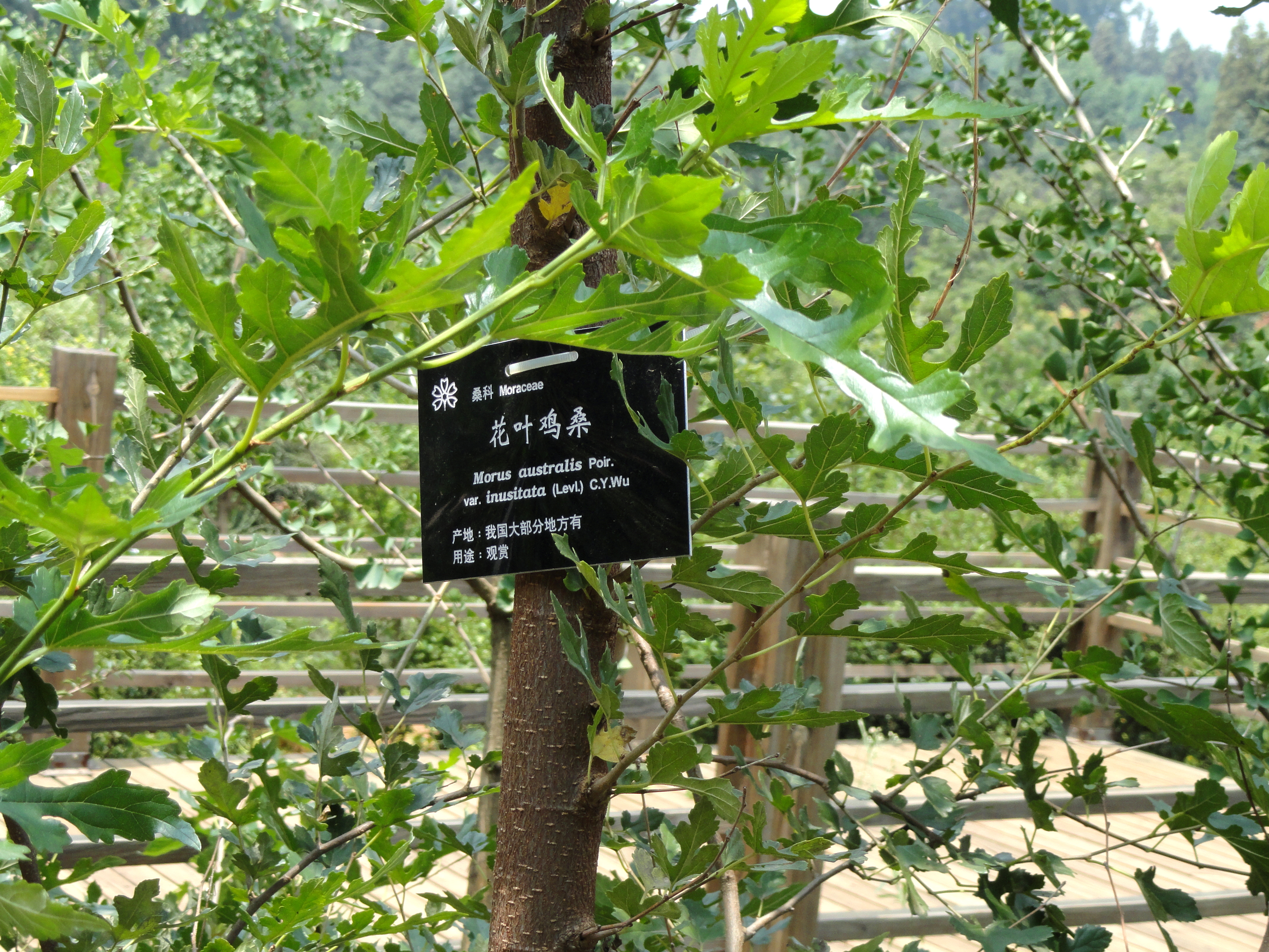 Plant specimen in the Kunming Botanical Garden, Kunming, Yunnan, China.